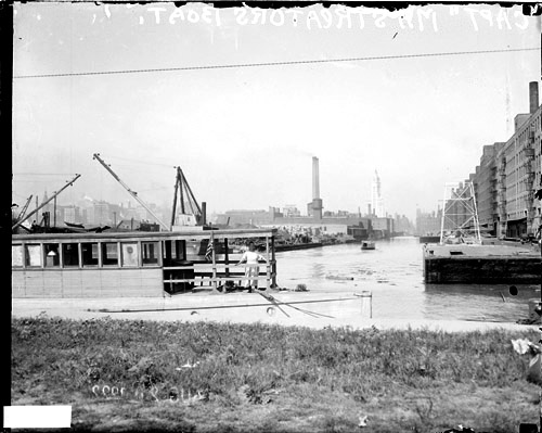 Houseboat of Mrs. George Wellington Streeter docked on Lake Michigan in Near North Side community area of Chicago.